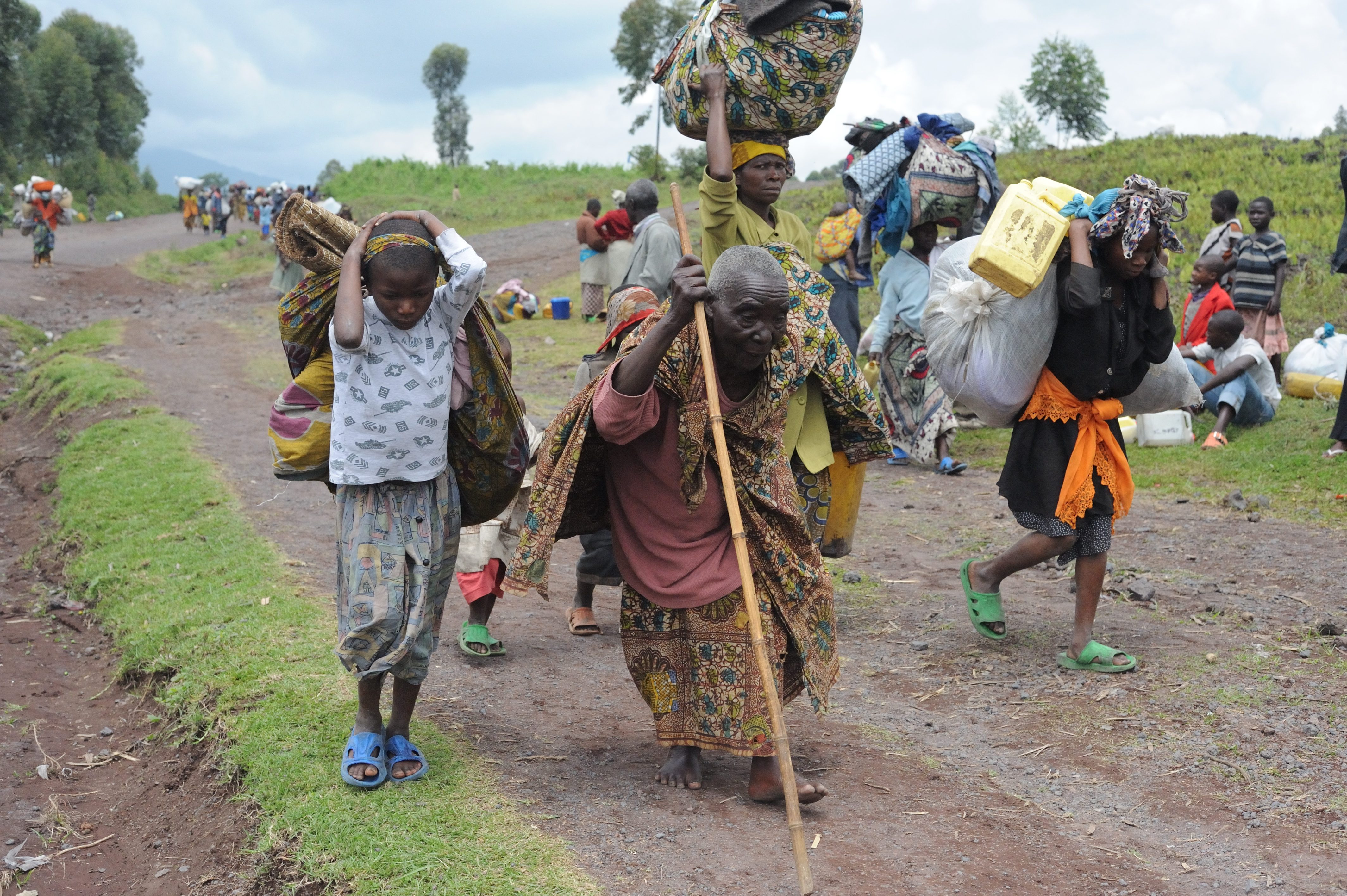 "I was on the outskirts of Kibati camp to oversee our emergency measles vaccination. It was in the same location as an ICRC WFP food distribution. We heard shooting the other side of the camp less than a kilometer away, single shots and automatic for about 15 minutes. People fled the distribution, ran to the camp picked up their belongings and hurried down the hill to Goma. A crowd gathered around an abandoned food truck and started to loot it until government military police came in to restore order. As we drove back more than 200 very tense government troops trudged up the hill, announcing worse to come." - author